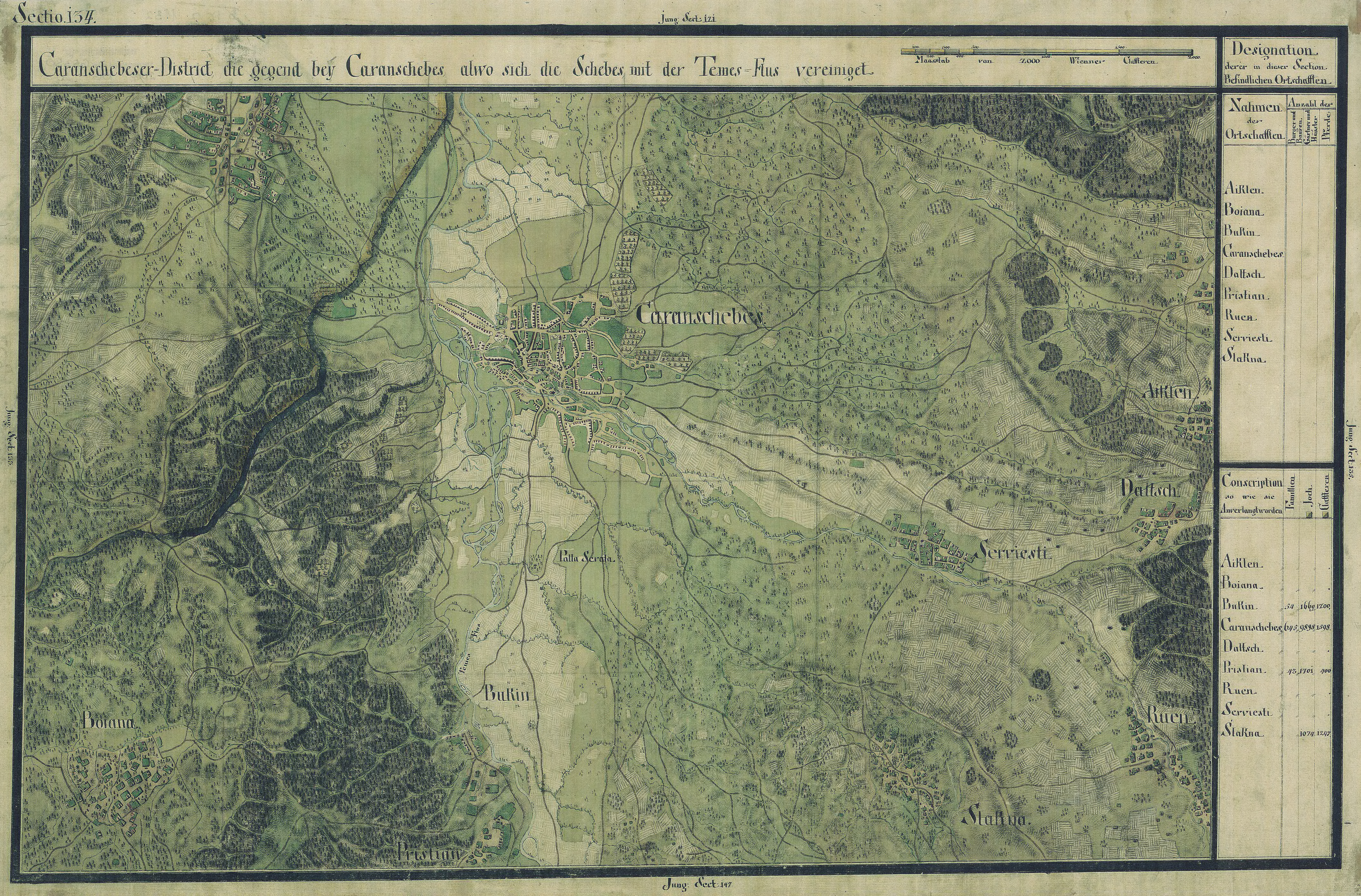 The Banat region in the cadastral maps: Josephinische Landesaufnahme, 1769-72. Josephinische Landaufnahme pg134